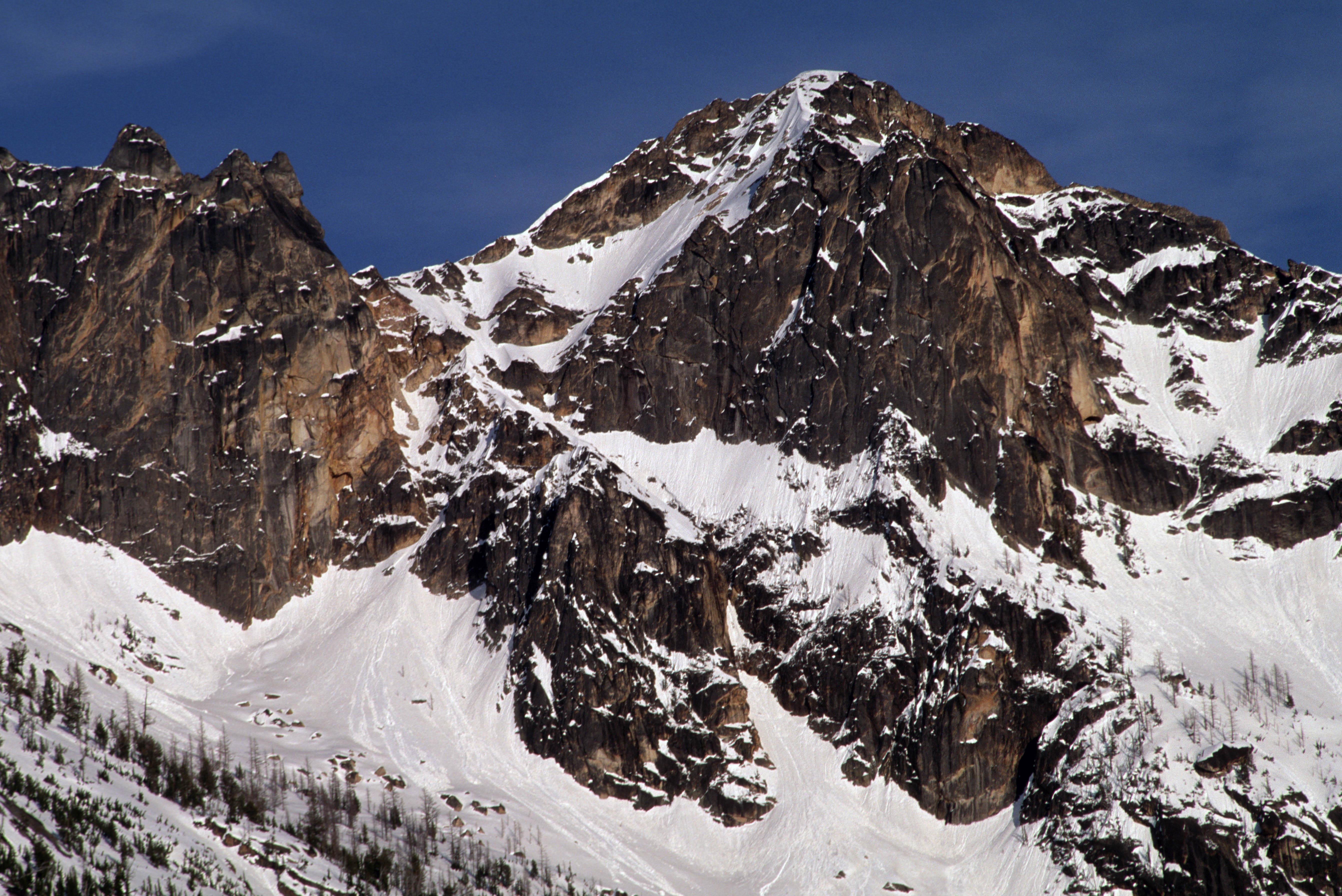 North Cascades Scenic Highway, Okanogan-Wenatchee National Forest.jpg